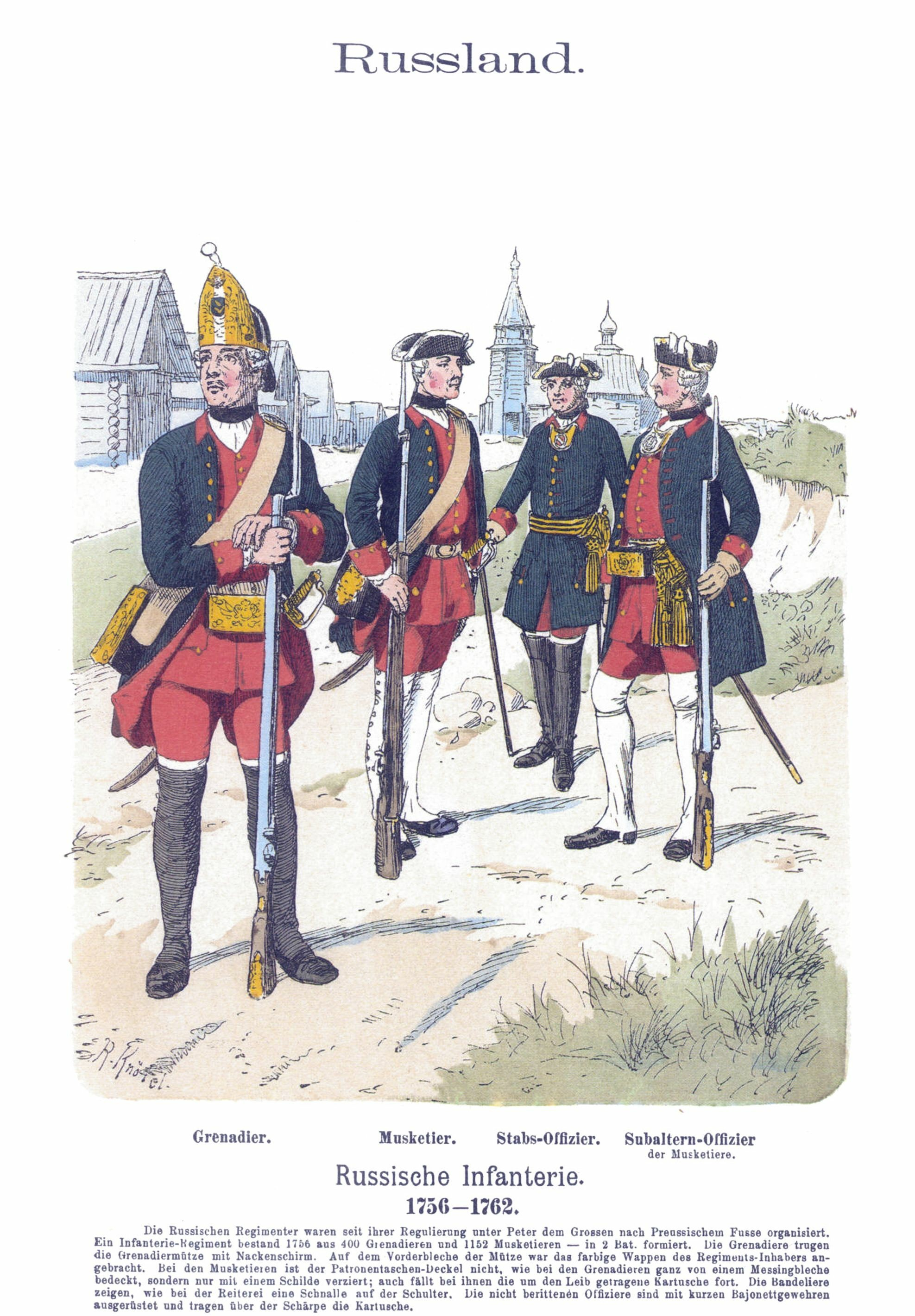 Rußland. Russische Infanterie. 1756-1762